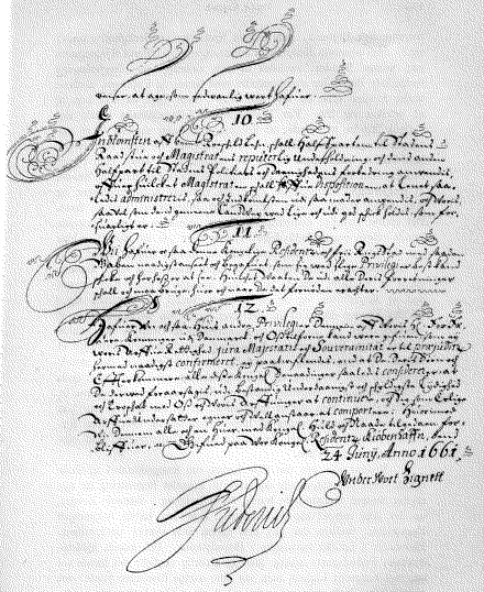 The last page of a royal letter of privileges issued by the Danish king to the city of Copenhagen on 24 June 1661.